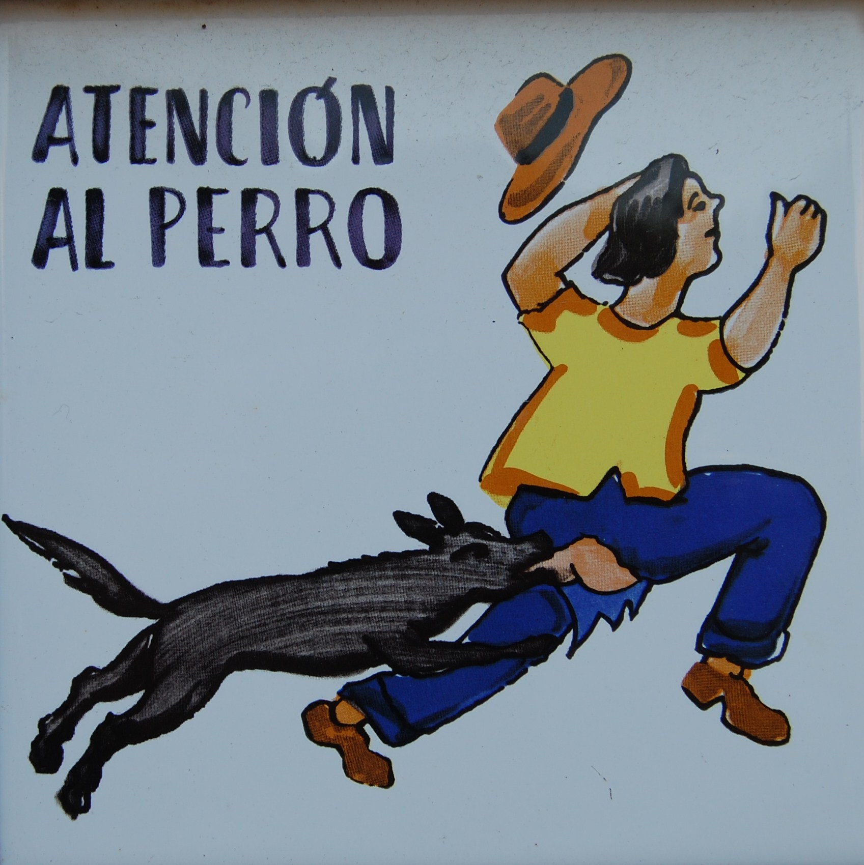 "Beware of the Dog" (tile on a wall of a house in Cala Ratjada, Mallorca)